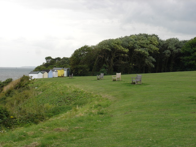 Cliff Top at Felixstowe This open space is on top of a cliff about 10 m high above the sea; the beach huts in the distance are a handful of the hundreds placed along this short piece of coast line.